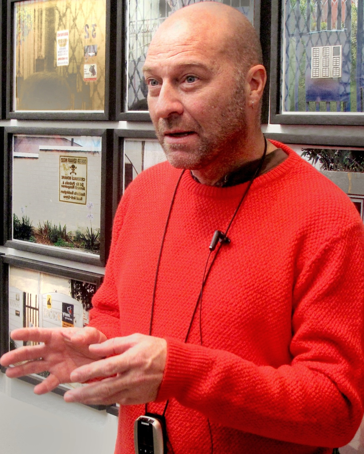 Kendell Geers at Haus der Kunst, 2013.